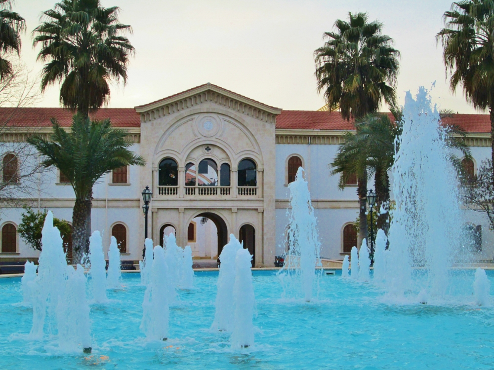 Kykkos Monastery Gardens Orthodox Christian Church Nicosia Republic of Cyprus